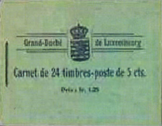 Cover of postage stamp booklet of Luxembourg, 24 x 5 centimes, 1895, SG#SB1